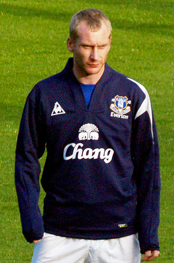 Tony Hibbert, English defender